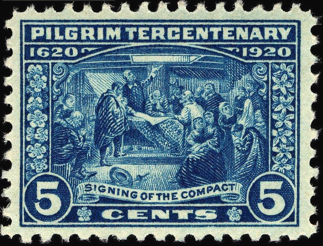 The founding of the Massachusetts Bay Colony was commemorated on the 300th anniversary in 1920, celebrating America’s in a representative democracy. The signing of the Mayflower Compact was the first major political event of American history.